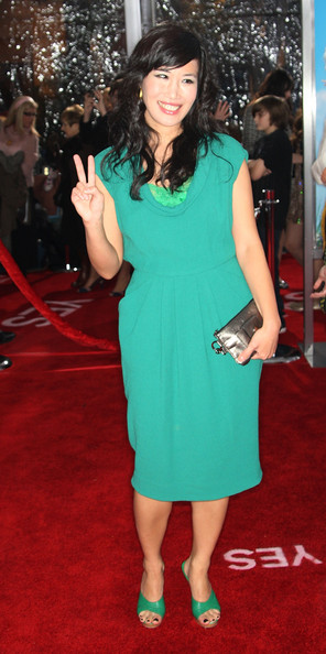 Vivian Bang, at the premiere of Jim Carey's "Yes Man"